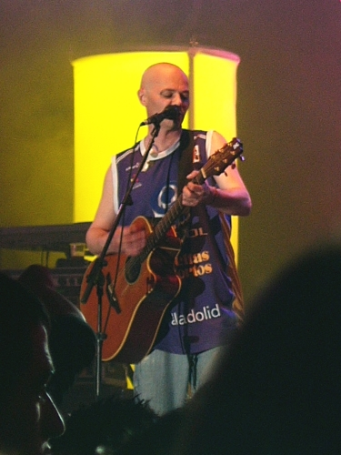 Castilian singer-songwriter Jesús Cifuentes performing live with Celtas Cortos in Teulada